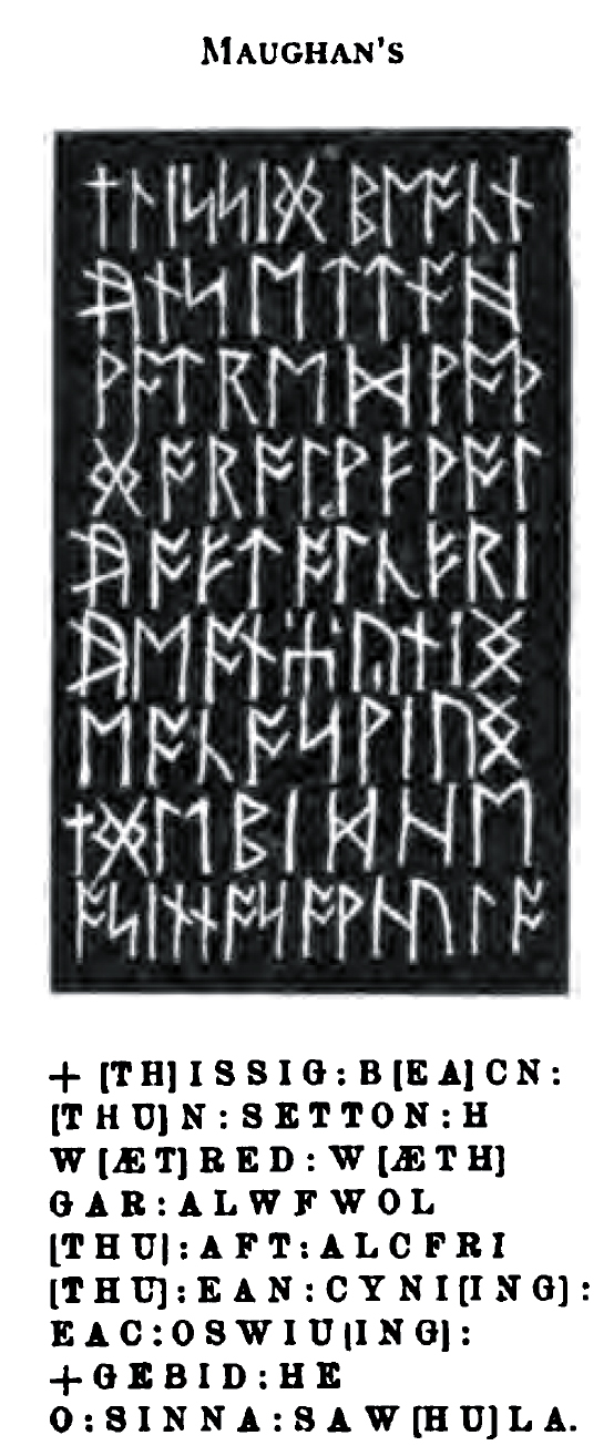 Captioned as "Fig. 33. Maughan's (From Maughan, Memoir p. 33.)."